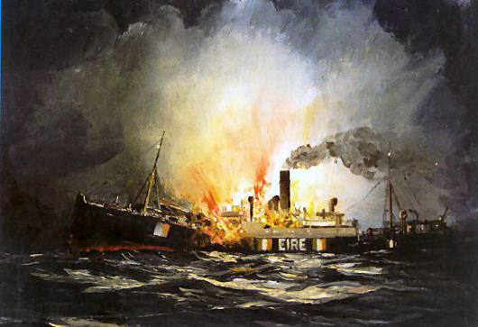 Low resolution copy of an oil painting The artist is Kenneth King, [1] The painting is on display in the National Maritime Museum of Ireland It is the property of the Maritime Institute of Ireland Des Branningan had this picture and others scanned for a book (this image is from his scan rather than the original painting) The MII grant permission to reproduce this low-resolution image This applies only to the low-resolution image If reproducing, please make reference to the artist and the museum. Ardmore was an Irish ship lost during World War II on 12 November 1940